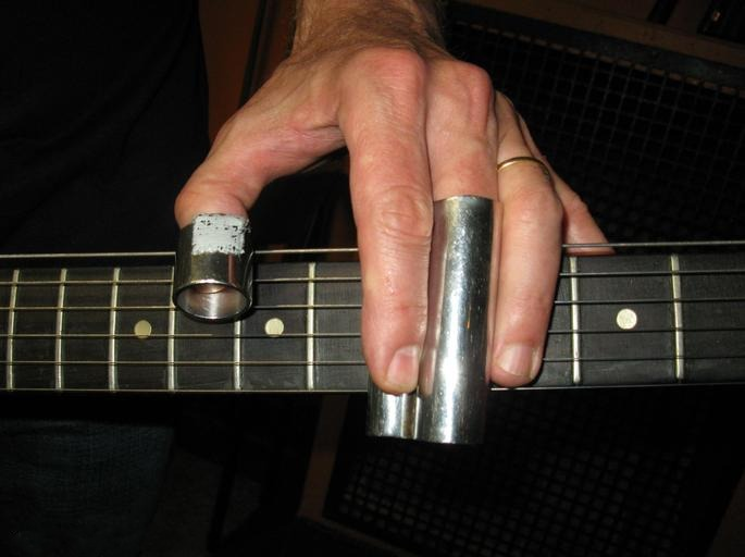 Close up of Brian Cober demonstrating his double slide technique